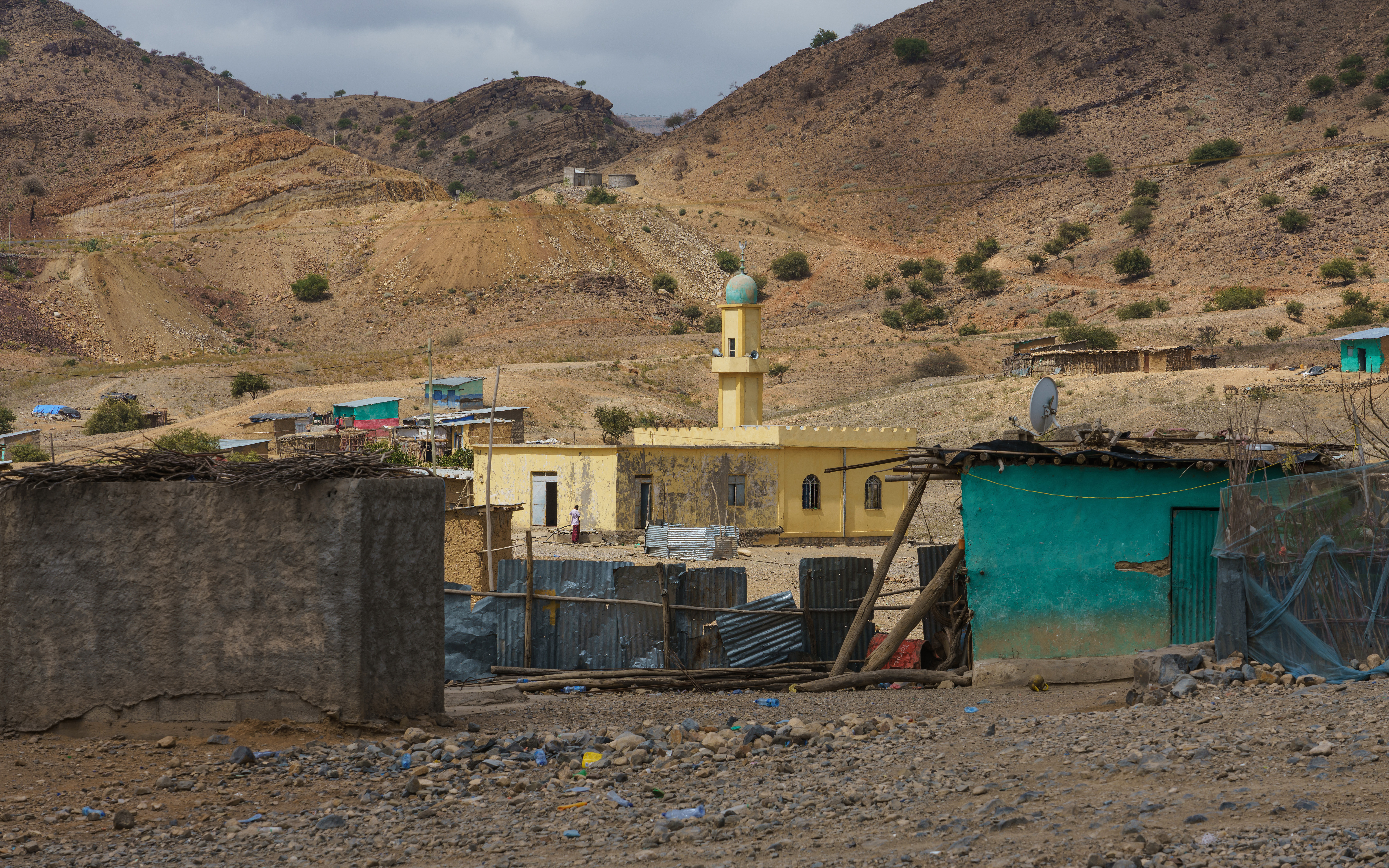 Erebti village, Afar Region, Ethiopia